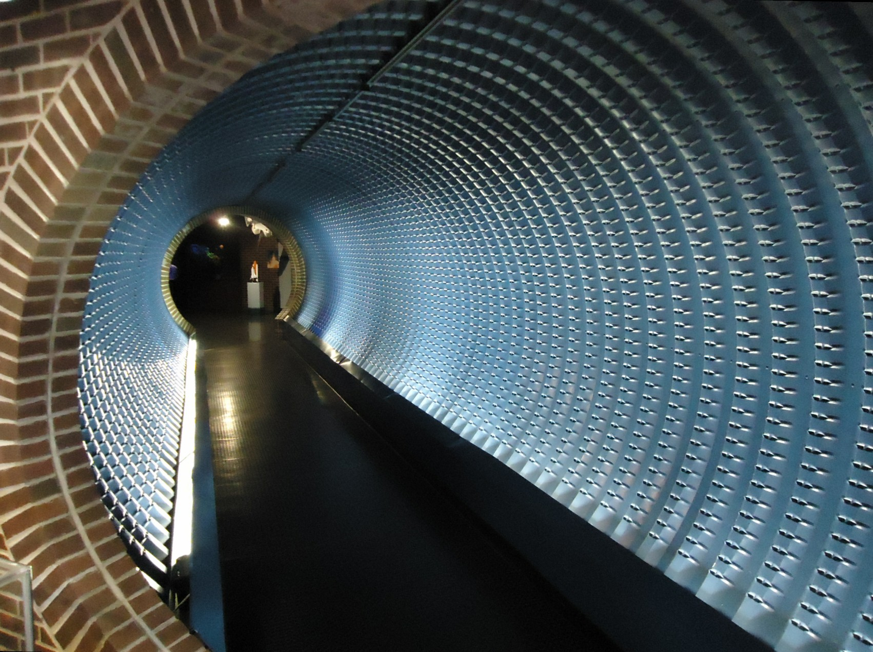 Raritan Valley Community College, in Branchburg, Somerset County, New Jersey, entranceway to planetarium.